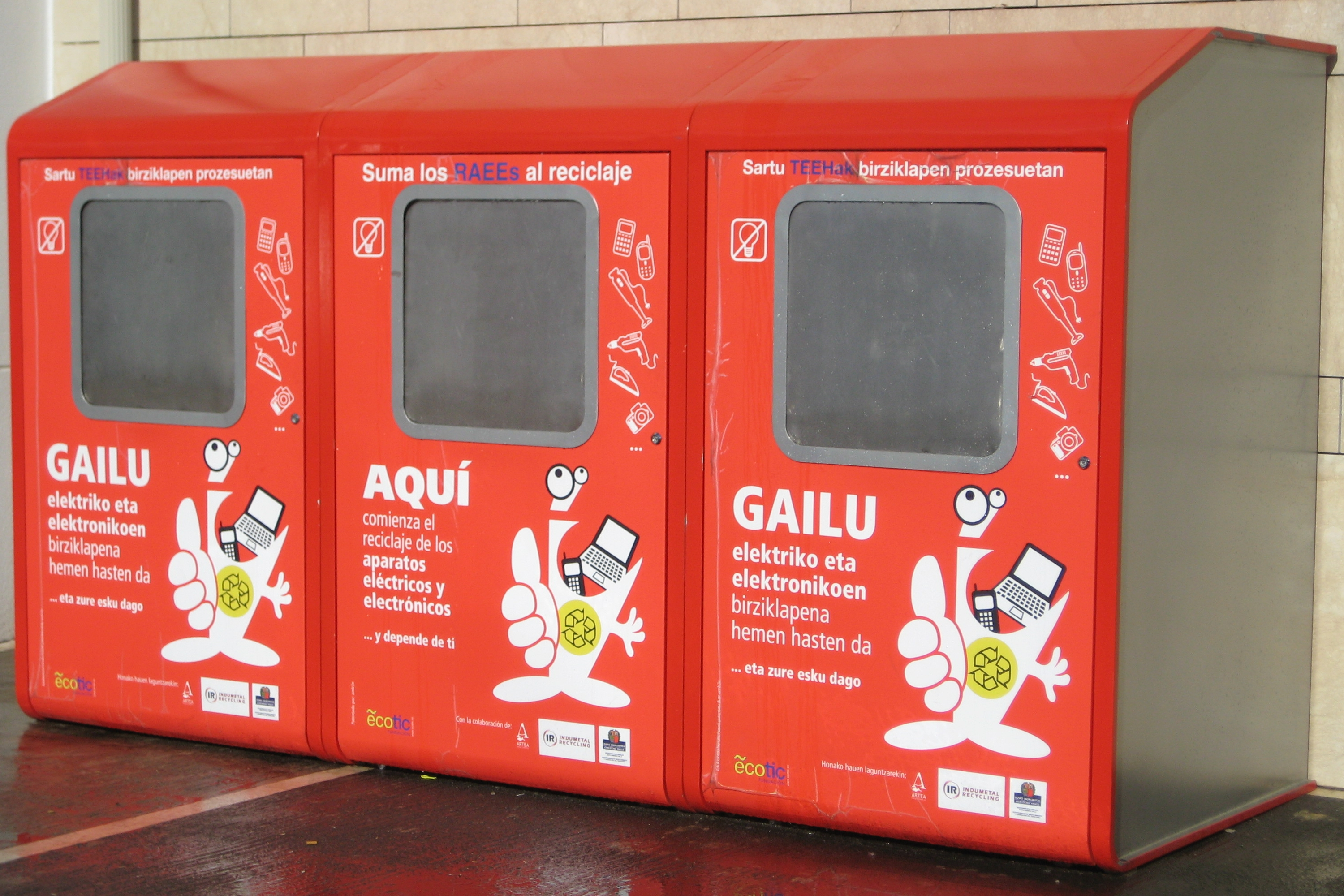 Container of electrical and electronic devices in Artea commercial mall, Leioa